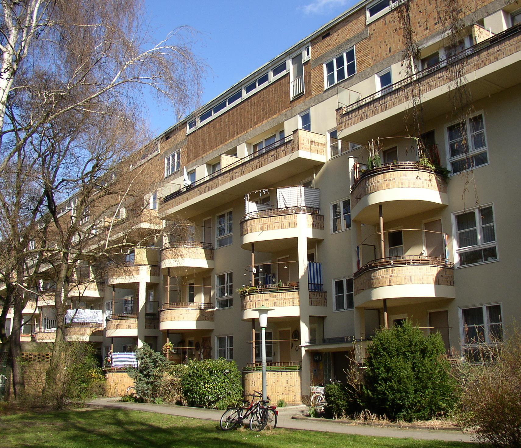 Building by Hugo Häring in „Großsiedlung Siemensstadt“ in Berlin-Charlottenburg-Nord, Germany